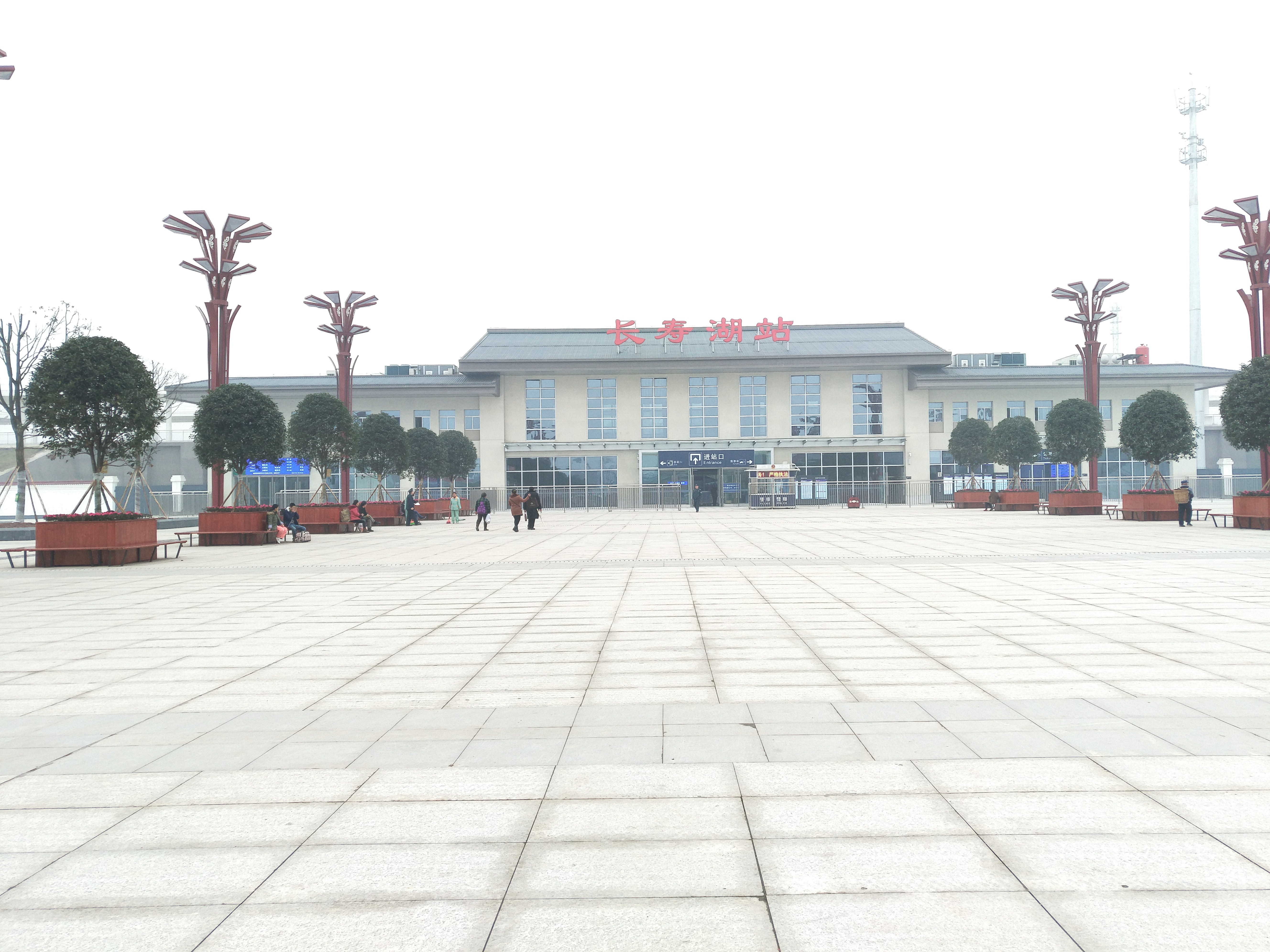 This is my own work authorization to use wikipedia.